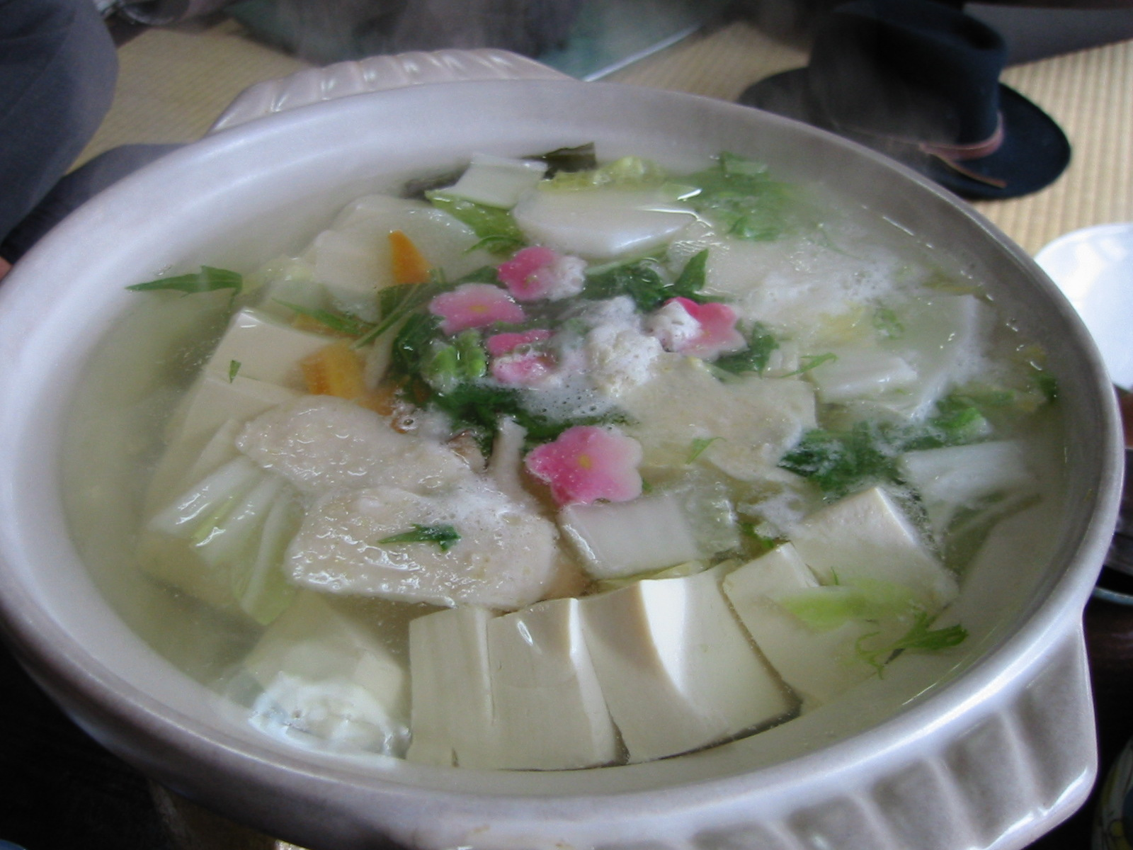 A photo of shojin ryori, or Buddhist vegetarian cuisine, at the Zen temple of Ryuanji in Kyoto, Japan. This was taken at the tea house where guests can have lunch and enjoy the view.